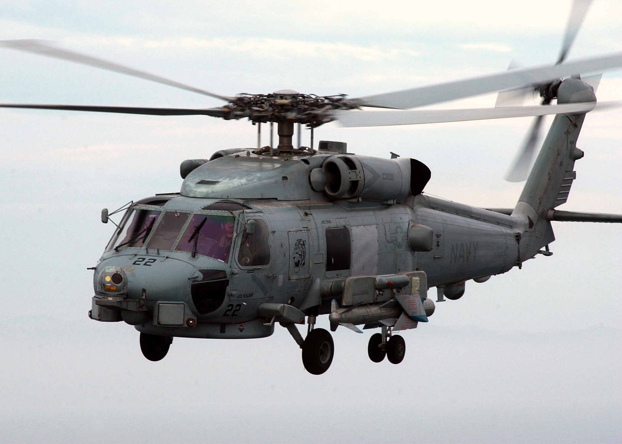 San Diego, Calif. (Aug. 11, 2003) -- Armed with an AGM-119 "Penguin" anti-ship missile, a SH-60B “Sea Hawk” assigned to the "Battle Cats" of Helicopter Anti-Submarine Squadron 43 (HSL-43) flies a routine training flight near San Diego, Calif. U.S. Navy photo by Photographer's Mate 1st Class Edward G. Martens. (RELEASED)